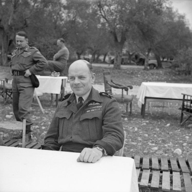 Air Vice-Marshal W Dickson, Air Officer Commanding the Desert Air Force, sitting down to afternoon tea while attending a conference at the Tactical Headquarters of the 8th Army, near Venafro, Italy.